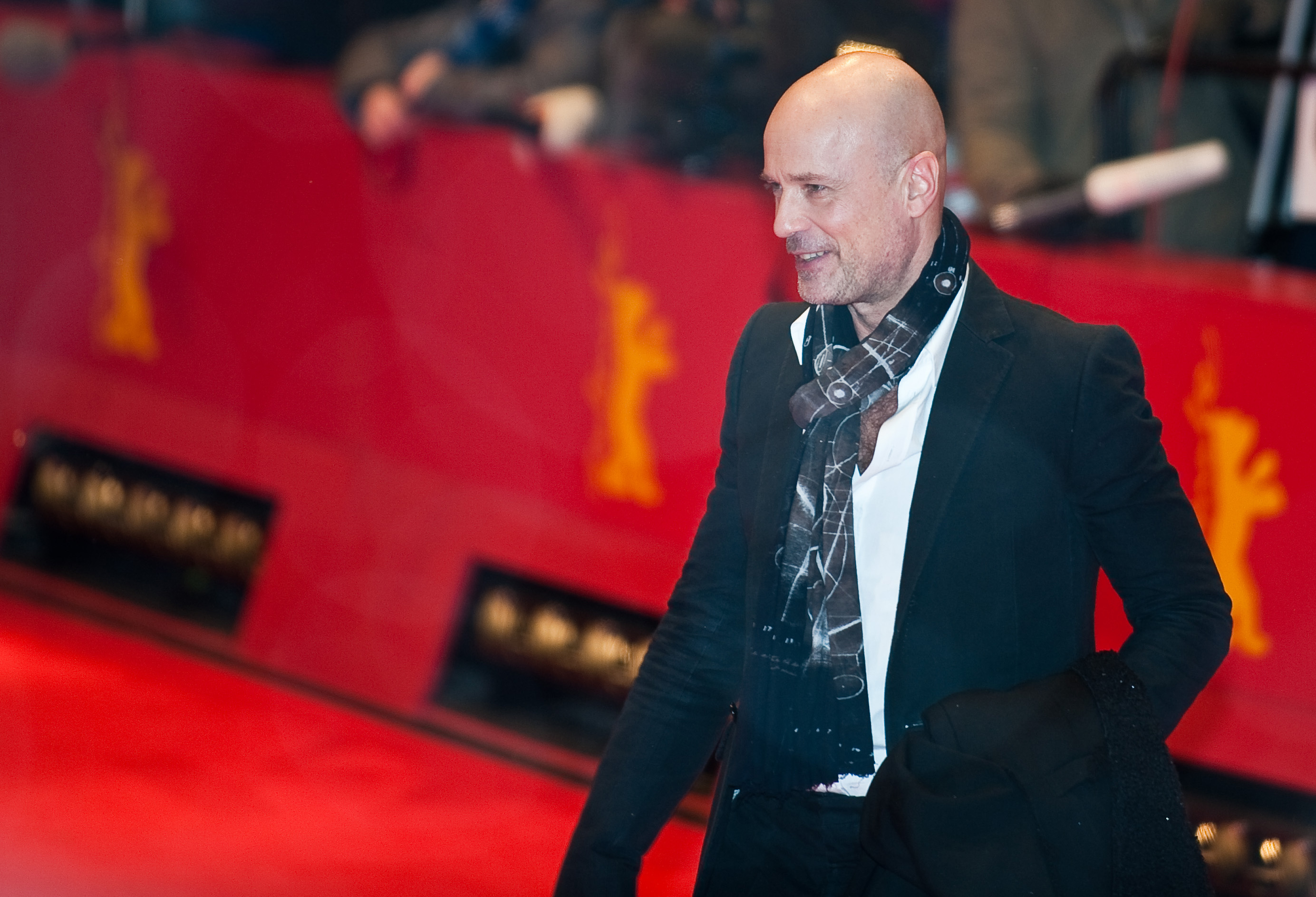 German actor Christian Berkel, arriving at the opening of the 60th Berlin International Film Festival